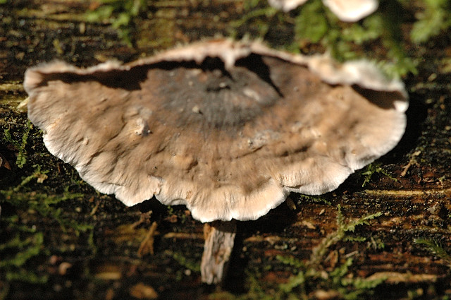 Veluticeps abietina from Commanster, Belgium. If you think this is a different taxon, please contact James Lindsey.